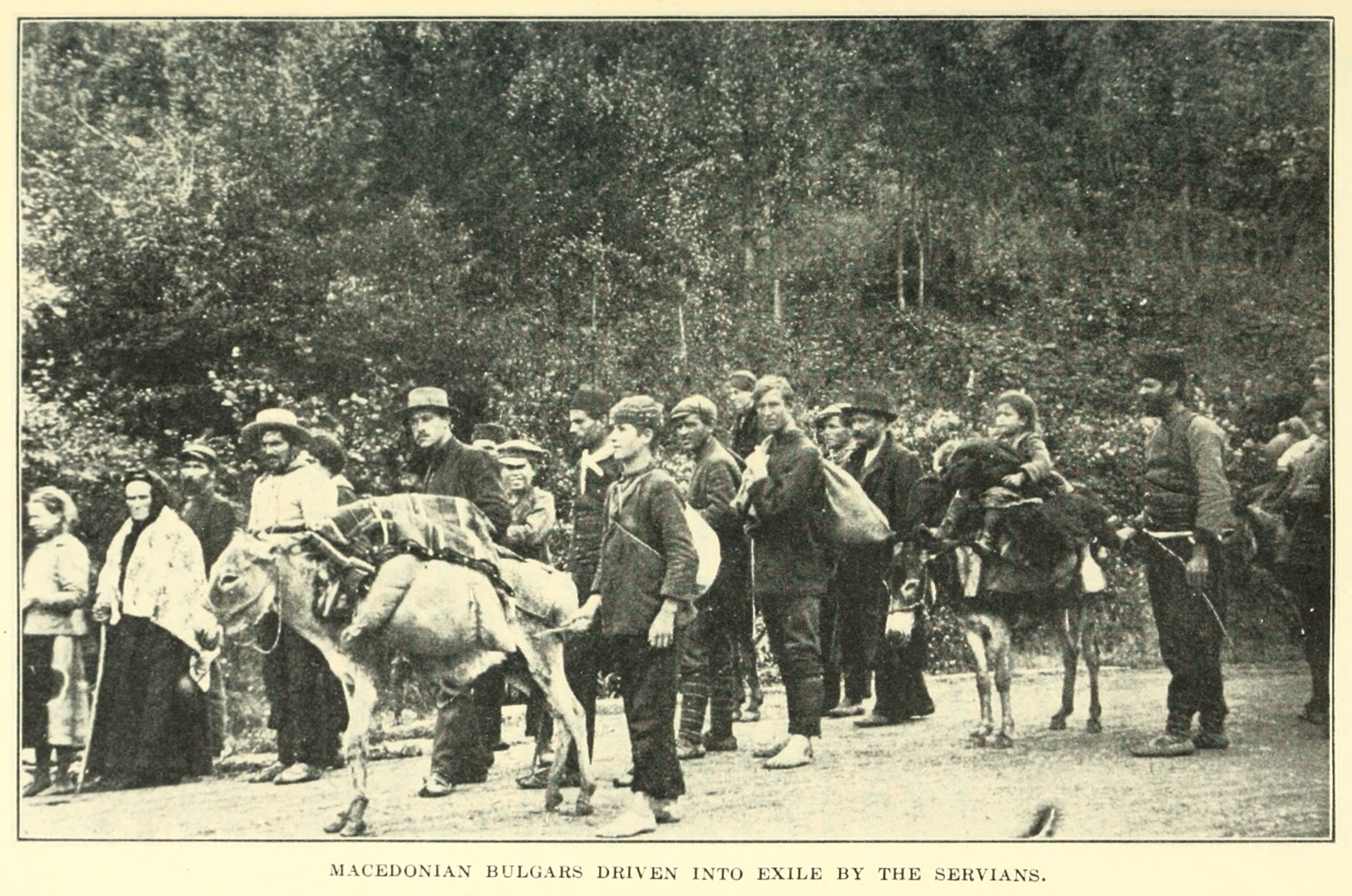 "Macedonian Bulgars driven into exil by the Servians." Monroe: Bulgaria and her people, with an account of the Balkan wars, Macedonia, and the Macedonian Bulgars (1914), p. 383